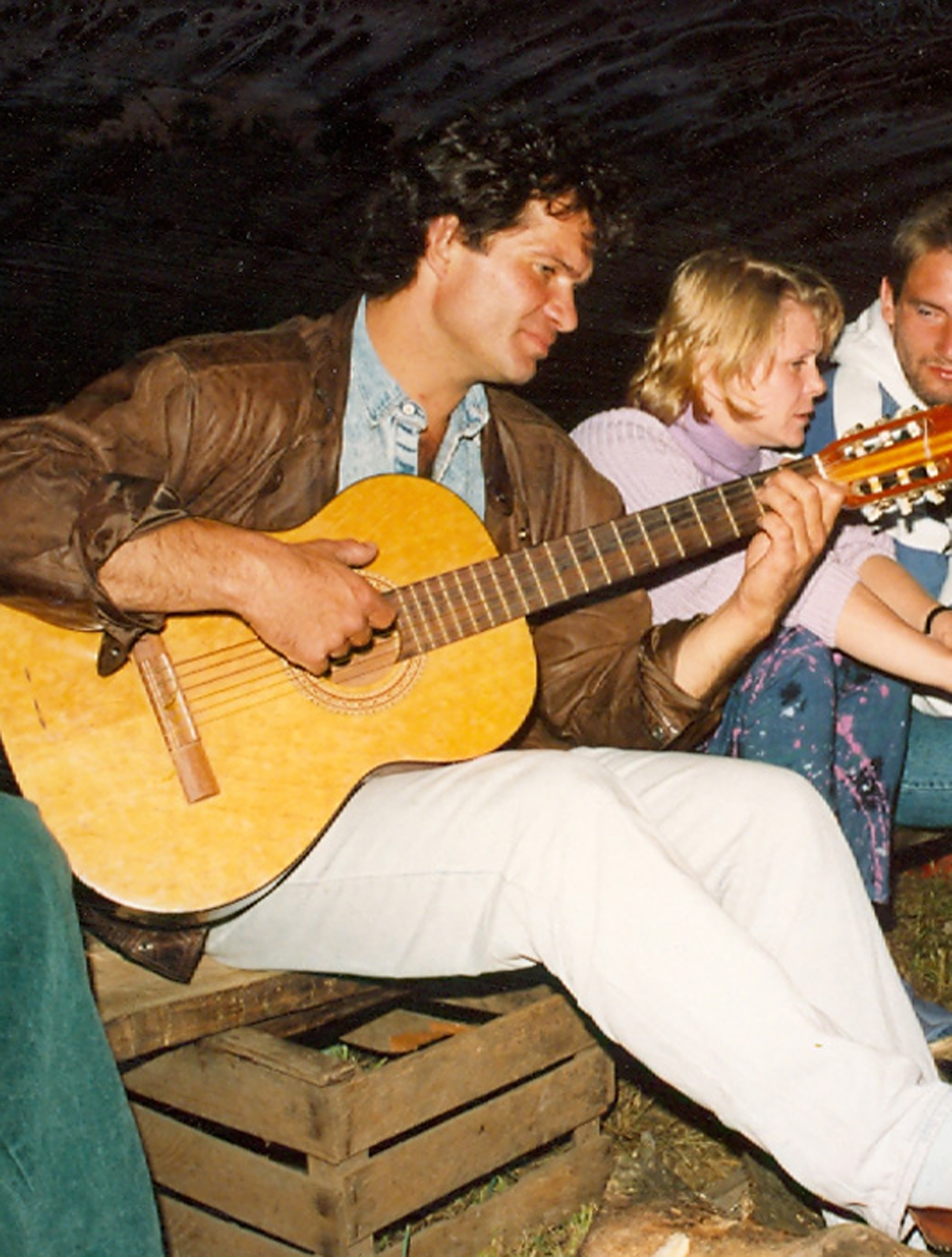 Roland Seidler